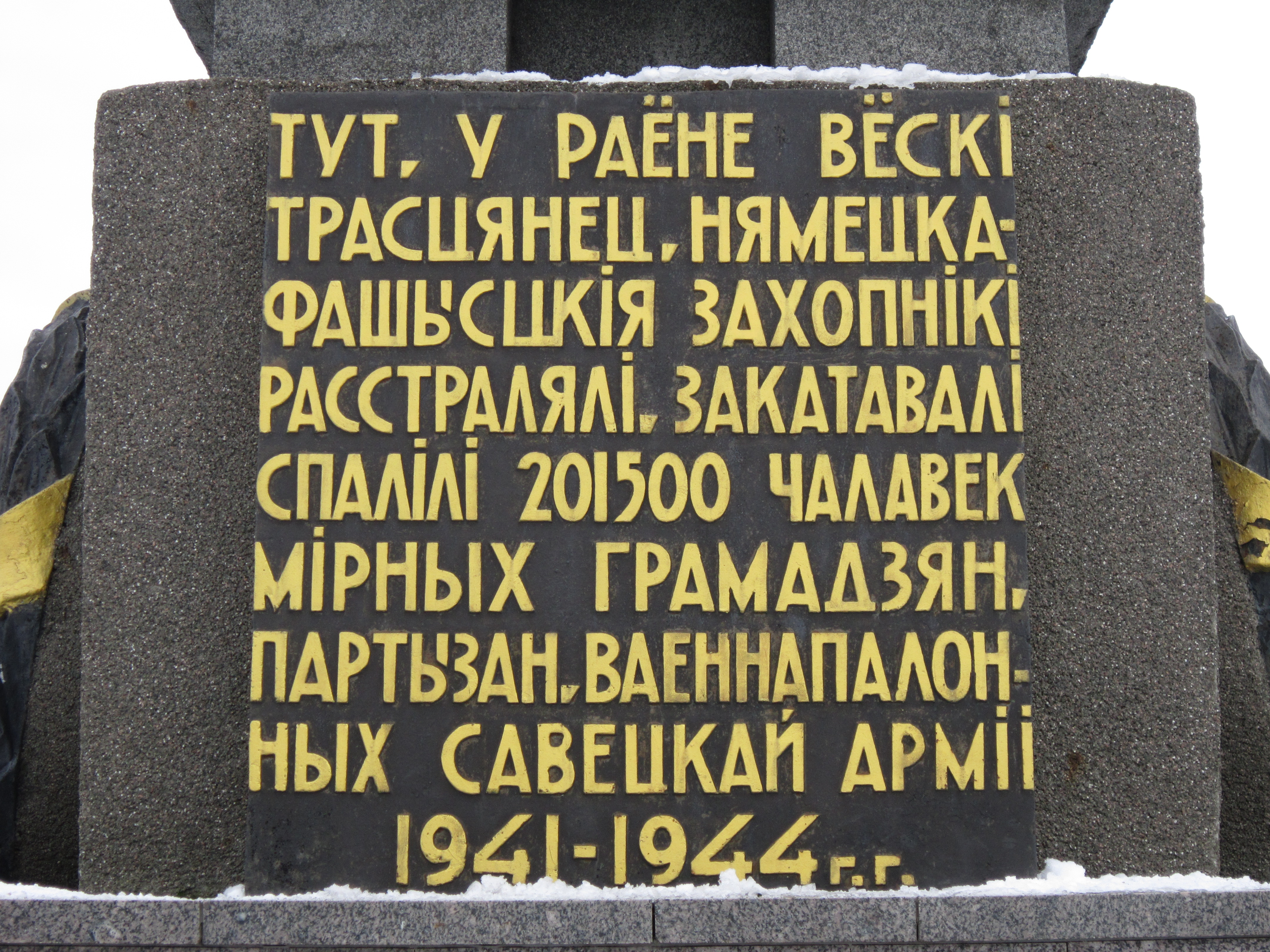 Memorial of victims of Maly Trastsianets extermination camp. «Here, near the Trastsianets village, German fascist invaders shot, tortured, burned 201,500 men of civilians, partisans and of prisoners of war of Soviet Army. 1941—1944»